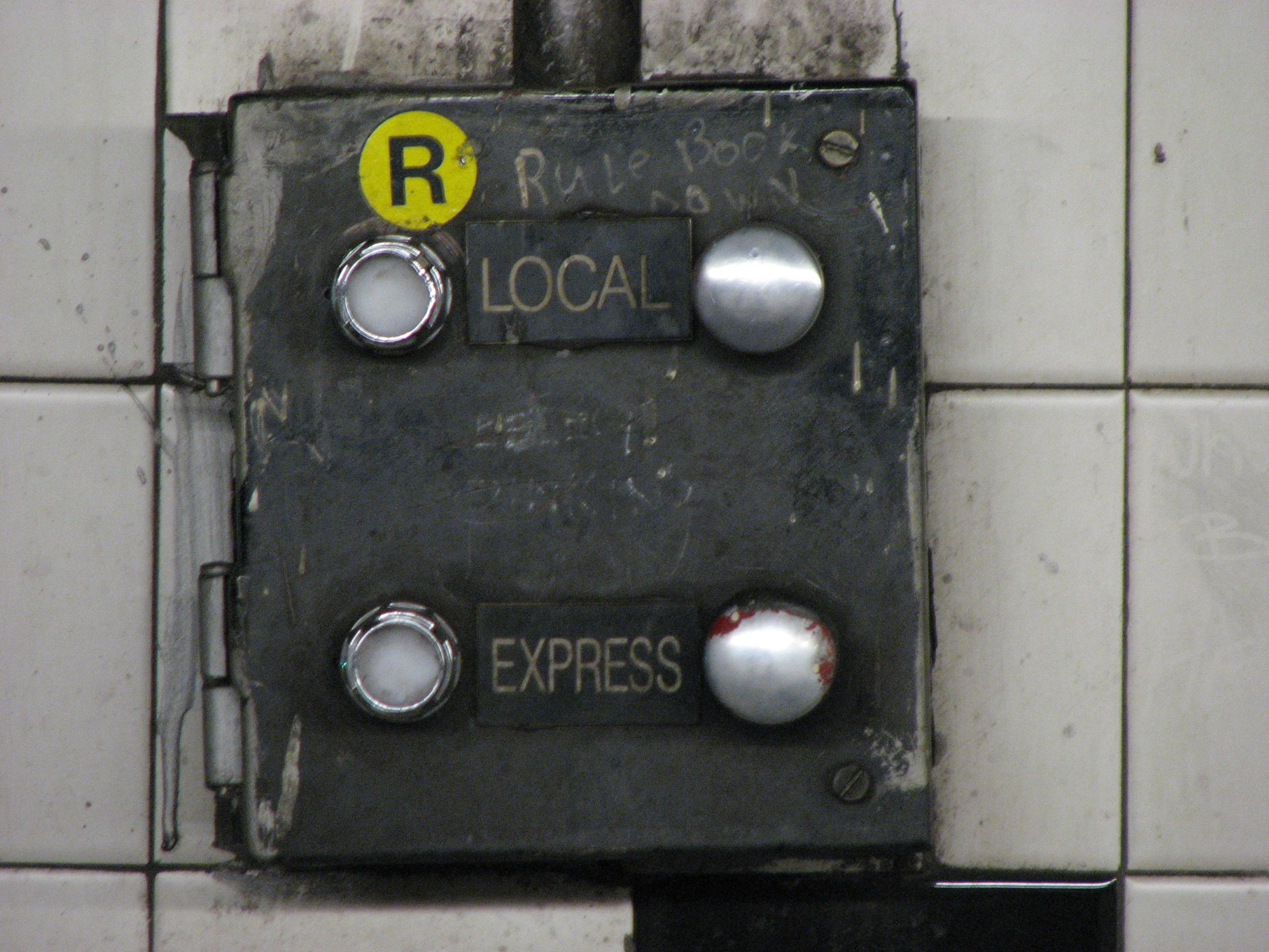 Route selection box (“punch box”) at 34th Street station on the BMT Broadway Line.This panel is mounted there on the outside wall of the northbound local track. The conductor of an arriving train can select his route here by pushing one of these buttons to the right to alert the tower. Then, the tower operator would set the switches so that the train would go along the correct route, and he would push another button to signal the conductor the correct lineup by the lamp to the left.By pushing the upper button, the train will continue on the local track. Otherwise, the crossover switches in the tunnel ahead will be set properly to lead the train onto the paralleling express track.Actually, the signage is not complete. Next to the R, there should have been an N for the other Broadway Local.